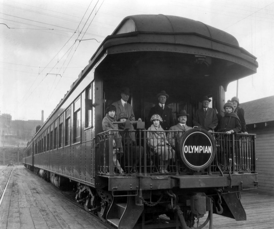 Photo of the observation car of the Milwaukee Road "Olympian". Because the photographer is Asahel Curtis, who worked primarily in Seattle, the location would seem to be in Seattle.